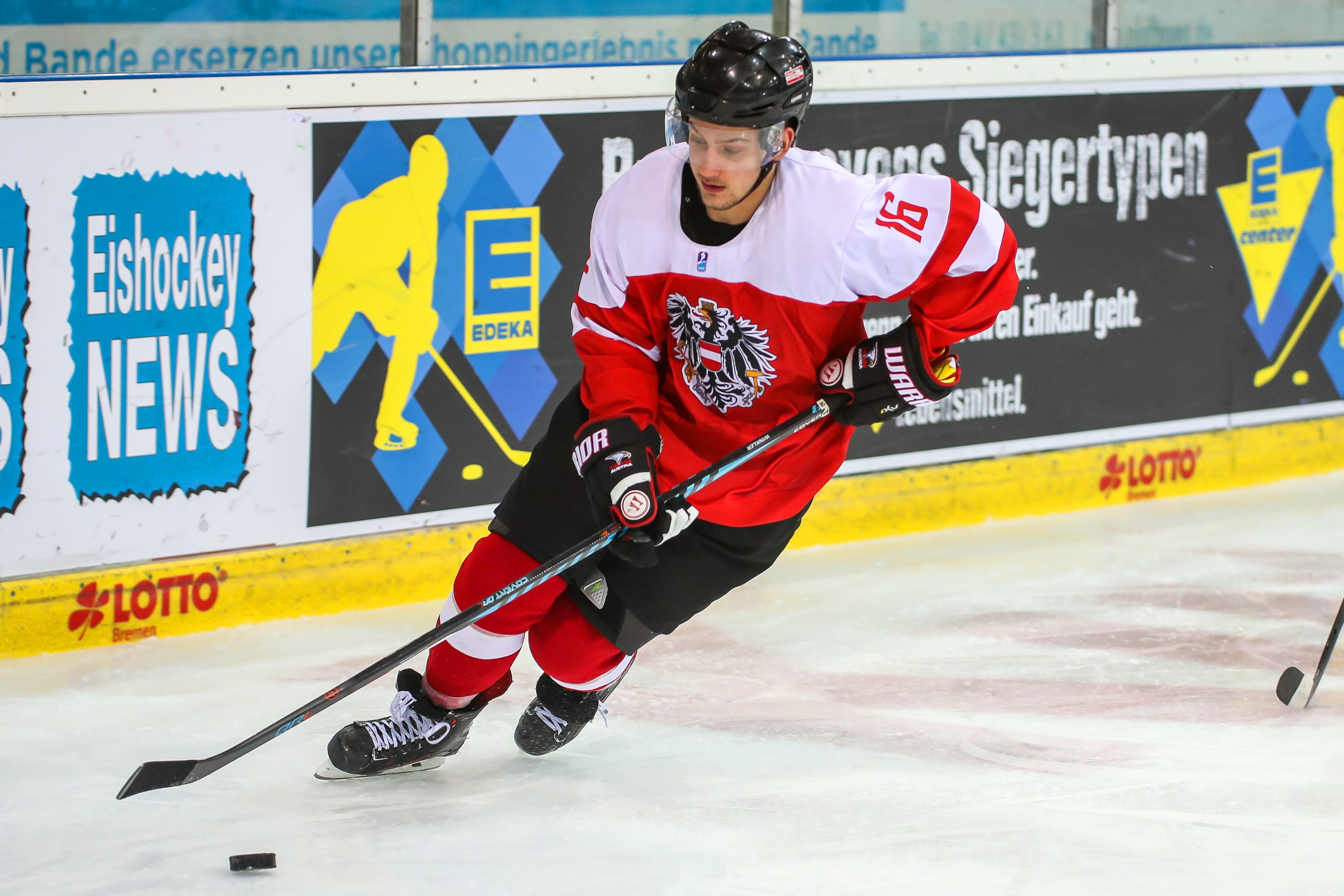 Dario Winkler, Team Austria, 2017 IIHF ICE HOCKEY U20 WORLD CHAMPIONSHIP Div. I Group A Bremerhaven, Germany